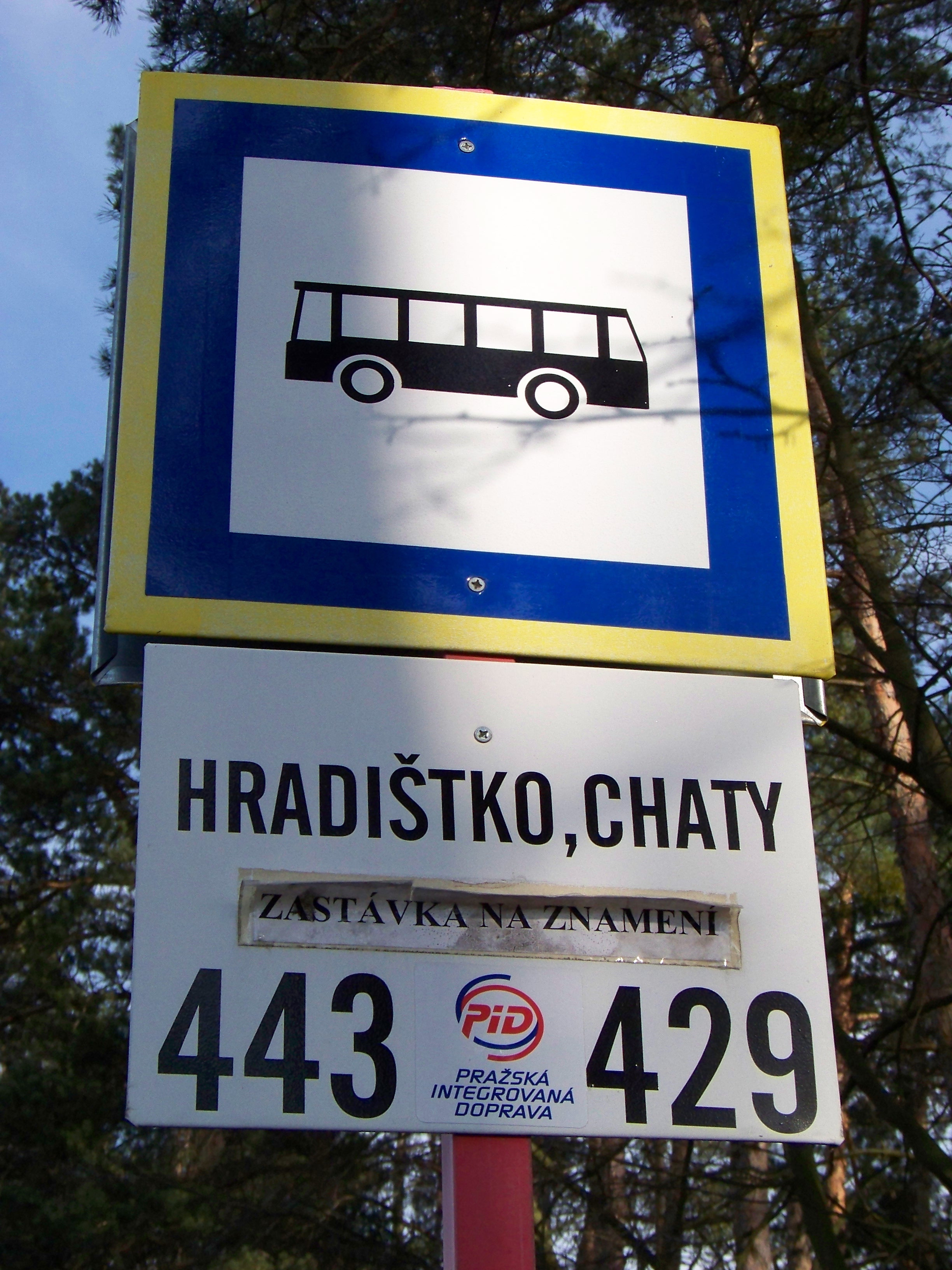 Hradištko, Nymburk District, Central Bohemian Region, the Czech Republic. A bus stop sign. - OpenStreetMap (Info)